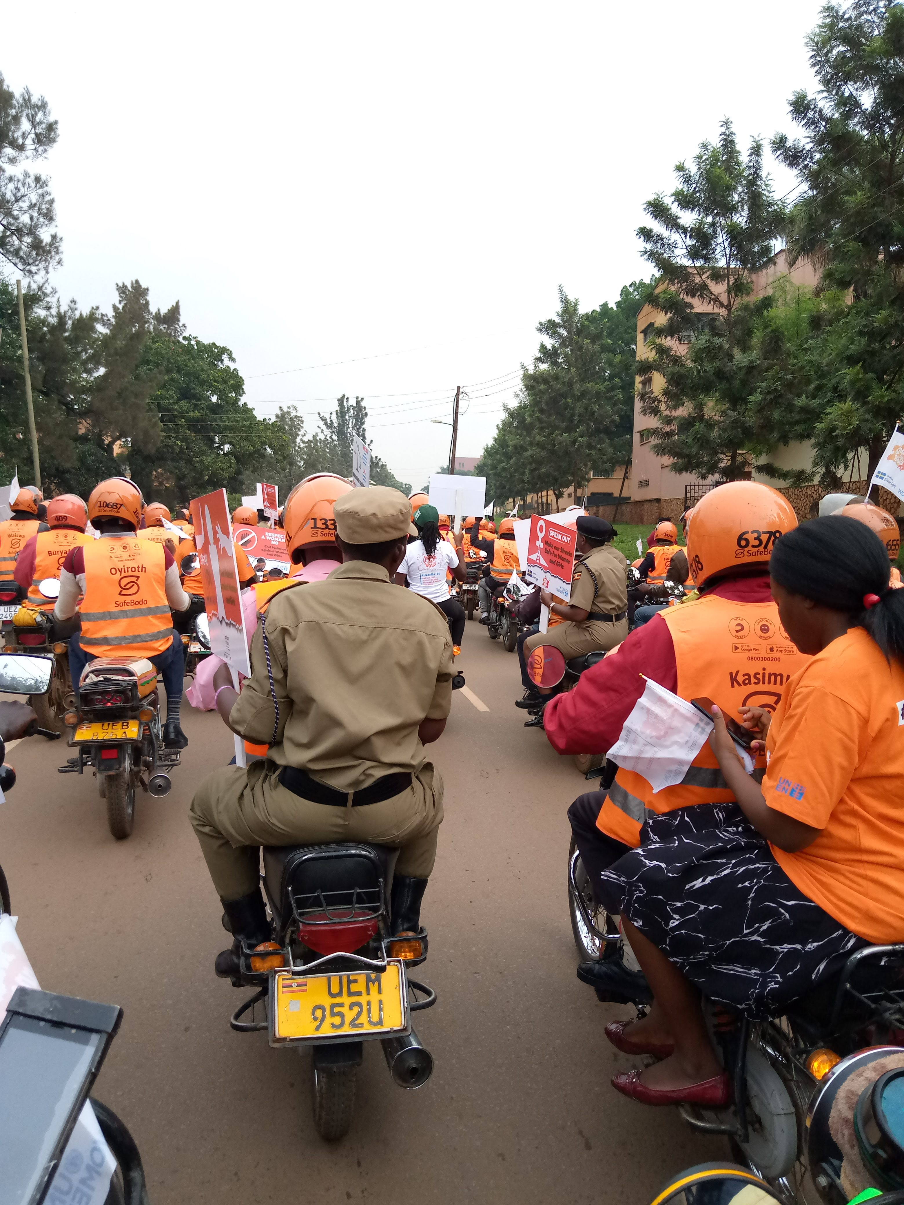 Cargo motorcyles in Uganda This is an image with the theme "Africa on the Move or Transport" from: Uganda